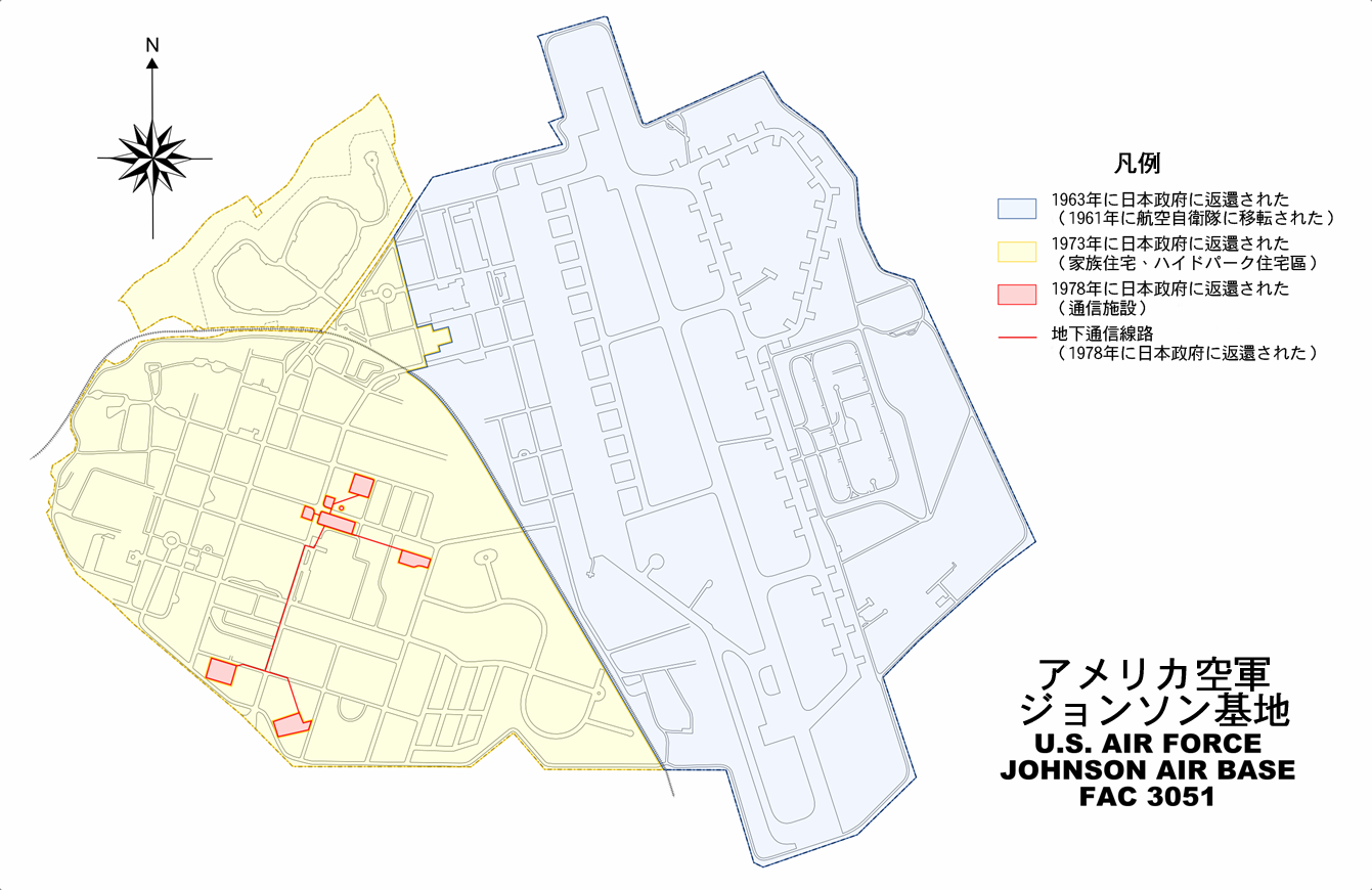 USAF Johnson Air Base, Saitama,Japan